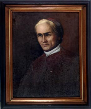 Carlos Bermudes Gonzales was the 13th Archbishop of Manila who served from 1722 to 1729. Fr. Gonzales was from Puebla de los Angeles, Nueva España.